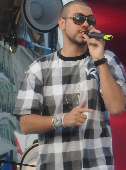 Mondo Marcio. public figures taken at public events